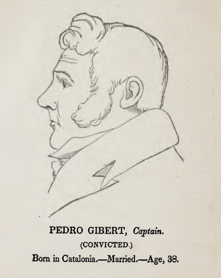 Likeness made of Spanish pirate Pedro Gibert during his trial before the U.S. District Court.